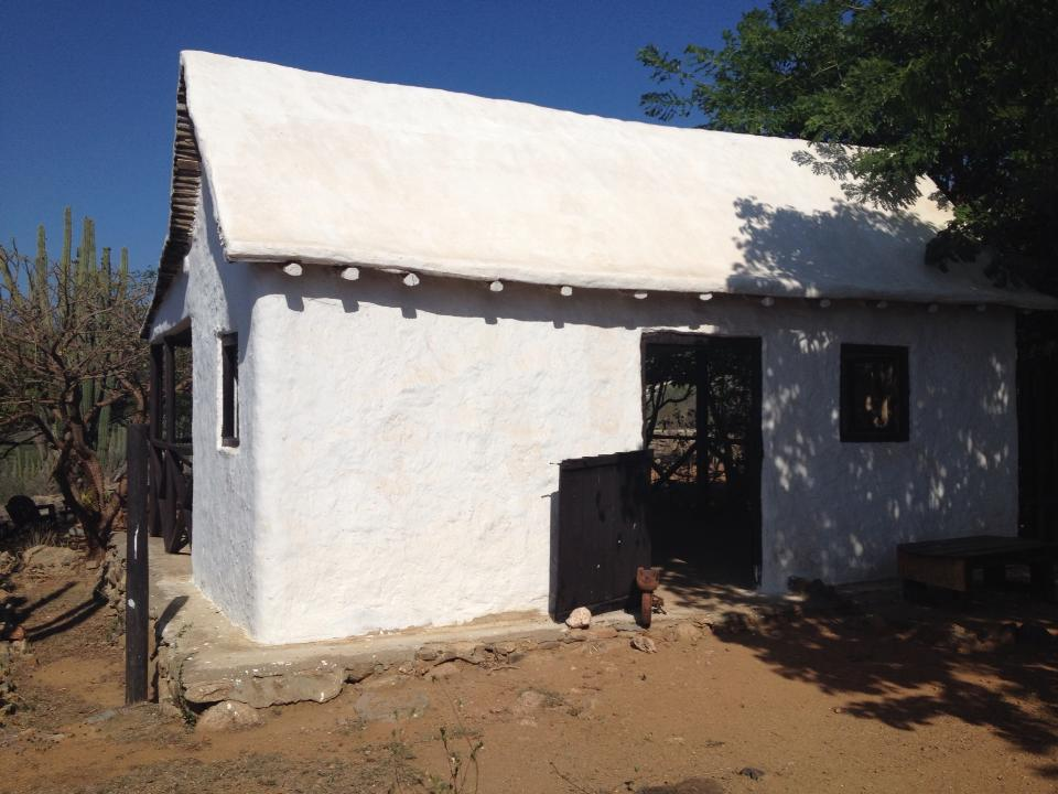 photo send by Nina Alg to facebook page for uploading